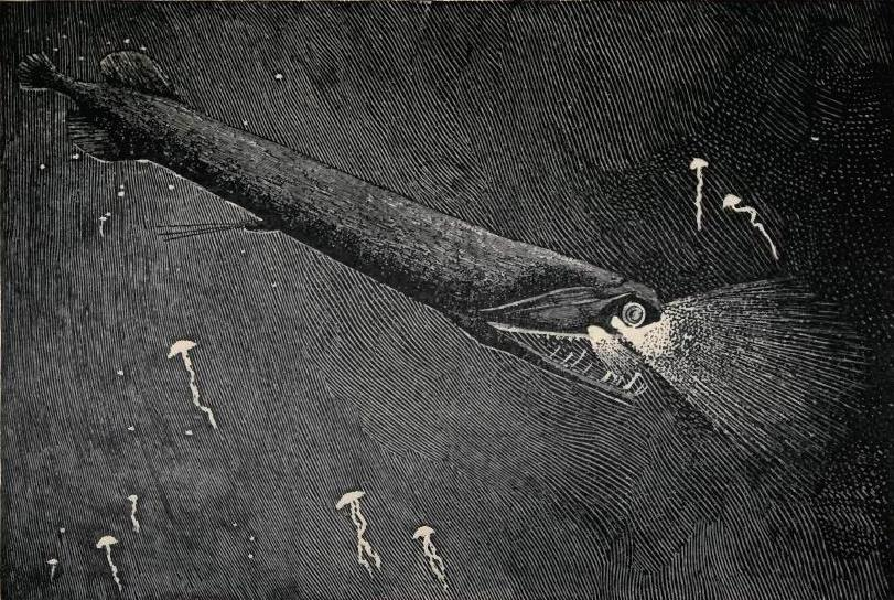 Old picture showing Malacosteus niger